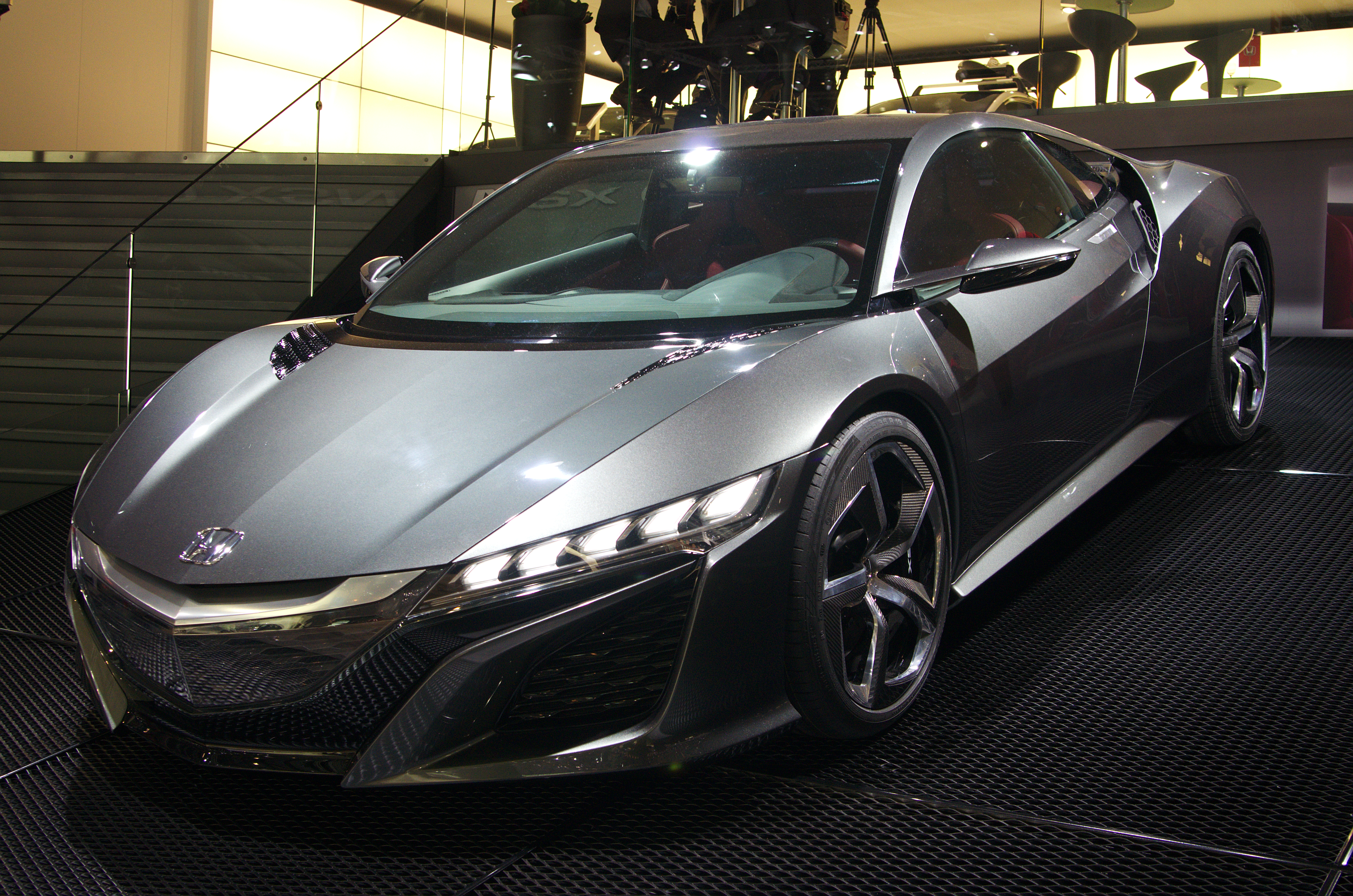 Geneva MotorShow 2013 - Honda NSX